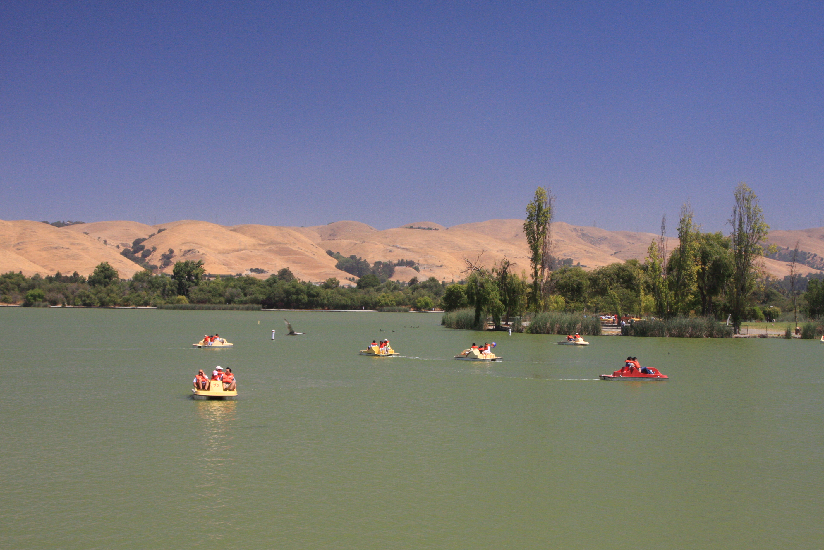 Lake Elizabeth in surreal color — in Fremont Central Park, Fremont, East Bay Area, California. Mission Peak is in the backround. Pedal boats are in the foreground. Credits Photo taken at Lake Elizabeth, Fremont Central Park, Fremont, California, USA.